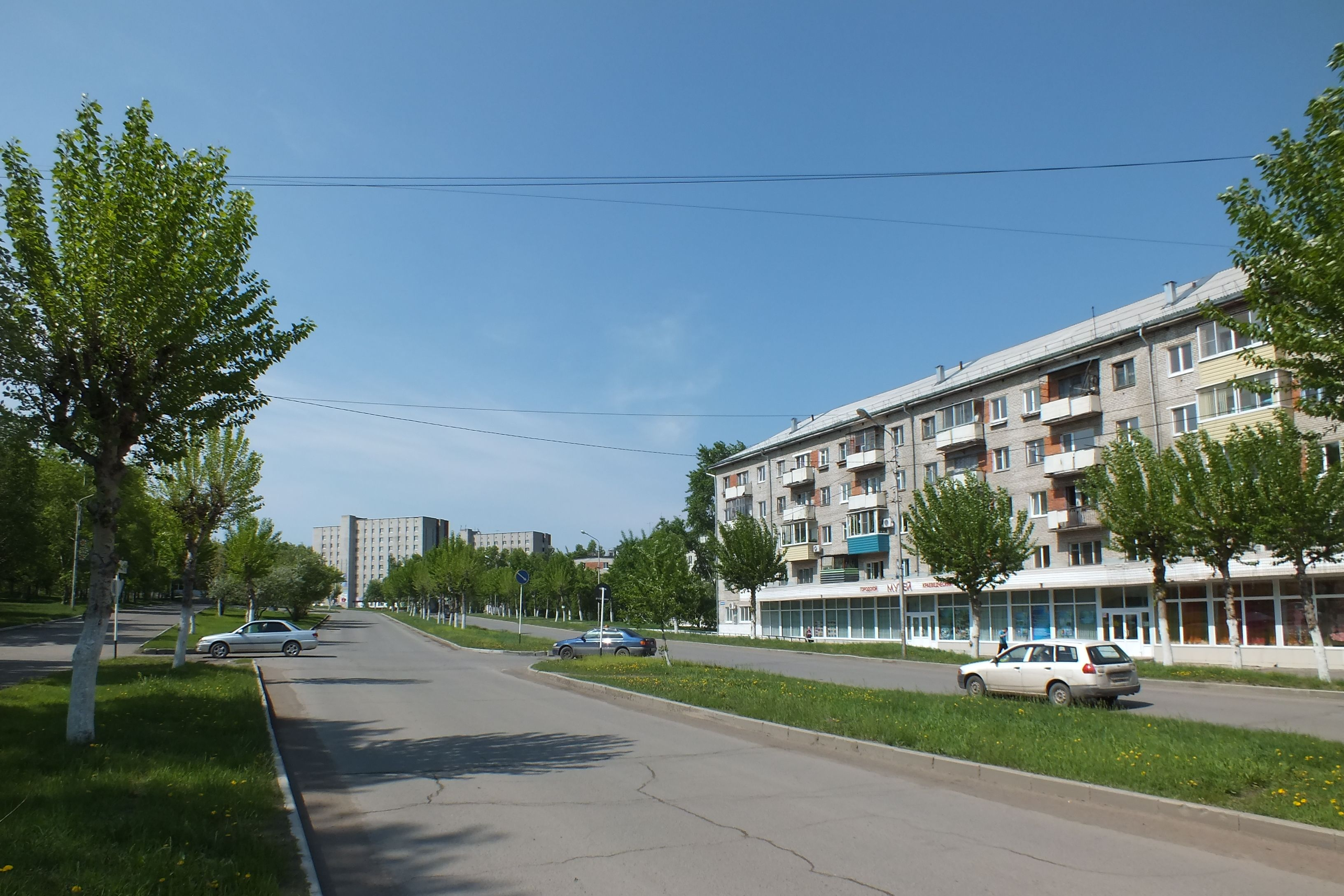 Amursk